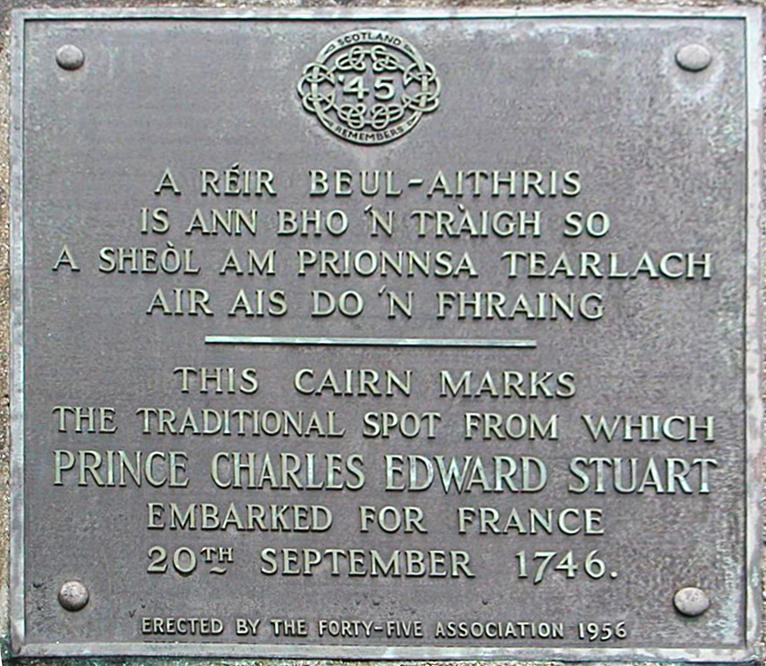 Inscription on the cairn released by Dave Waddell and Steve Lord.